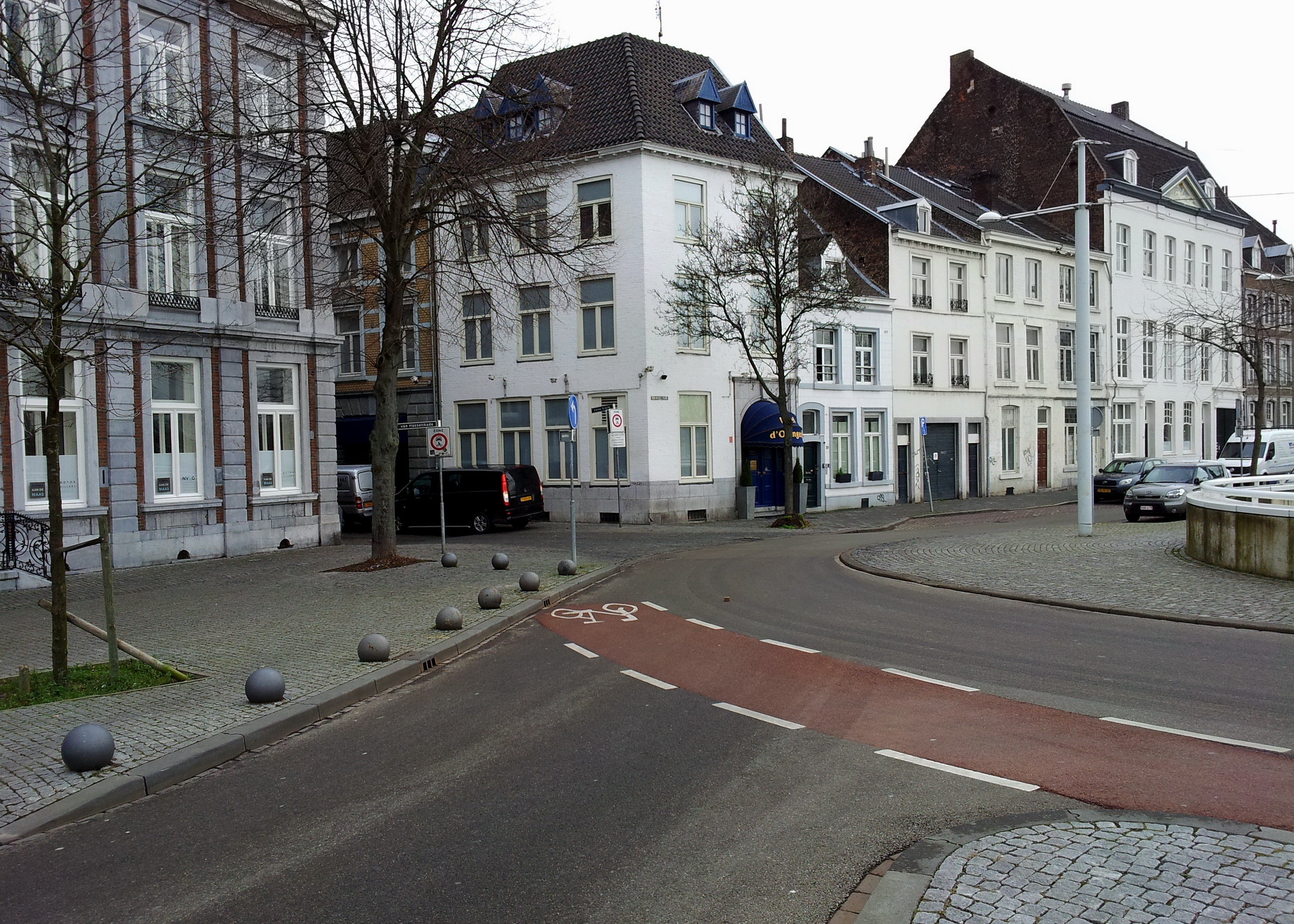 Maastricht, the Netherlands. View of Van Hasseltkade near Kleine Gracht.